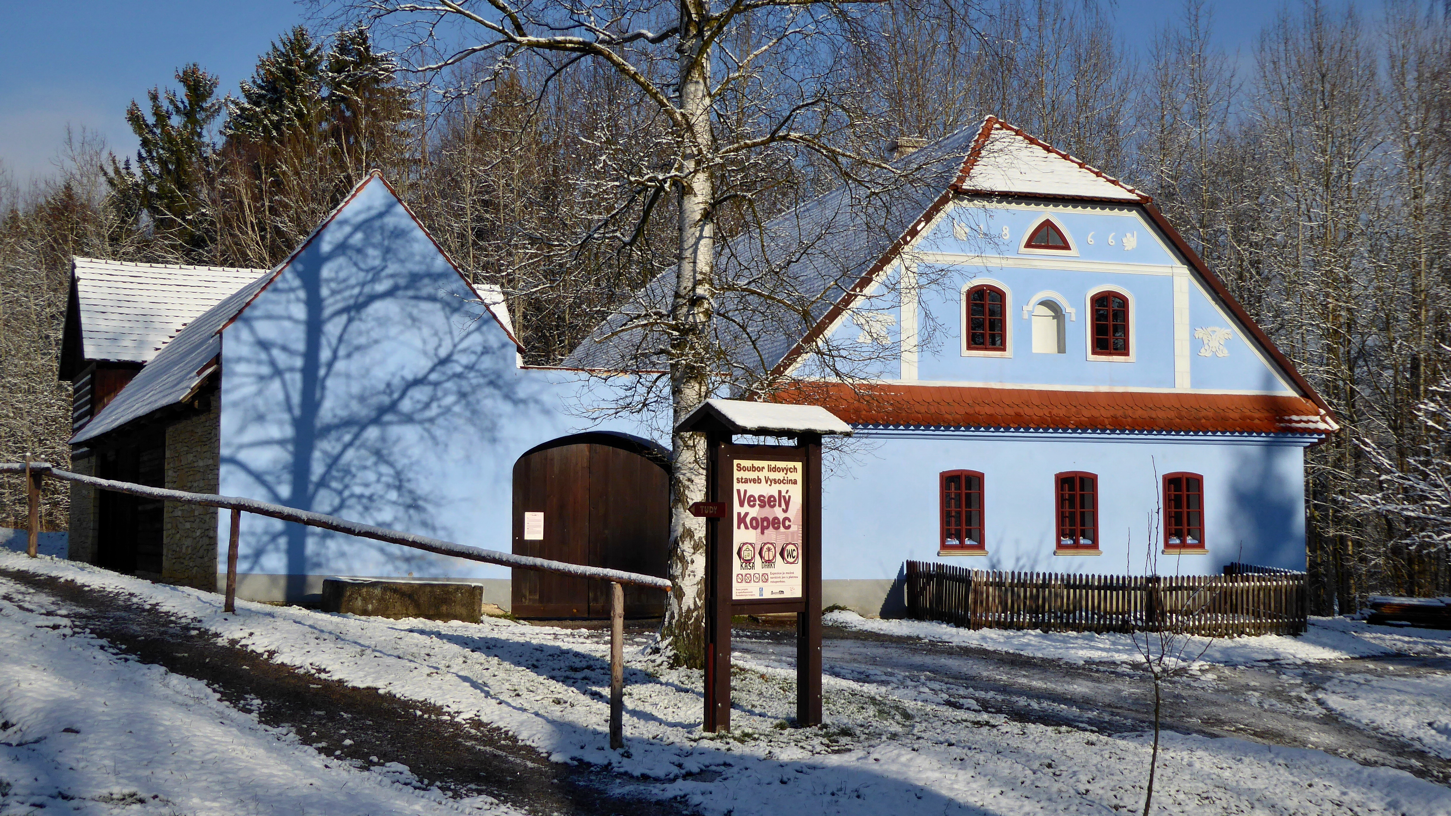 Large farmhouse, exposition Veselý Kopec, Open-air Museum Vysočina (formerly Set of folk buildings Vysočina). Big farm comes from the village Mokrá Lhota, house No. 19, part of the village Nové Hrady (district of Ústí nad Orlicí). It documents the development of folk architecture in the 19th centuries. The project of reconstruction of the building in the Veselý Kopec expozition was realized by Ing. architekt Petr Dostál. Photo-location: Czechia, Pardubice Region, village Vysočina, small hamlet and exposition Veselý Kopec (35°).